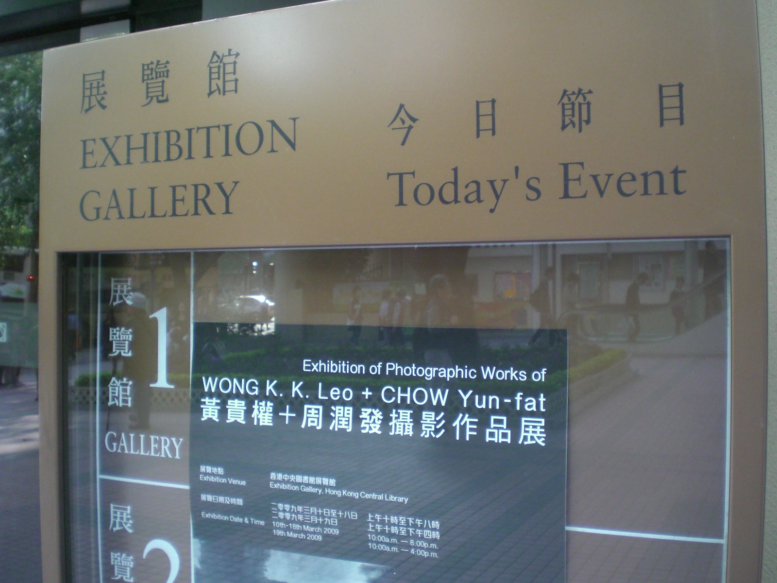 Chow Yun-fat at the Hong Kong Central Library